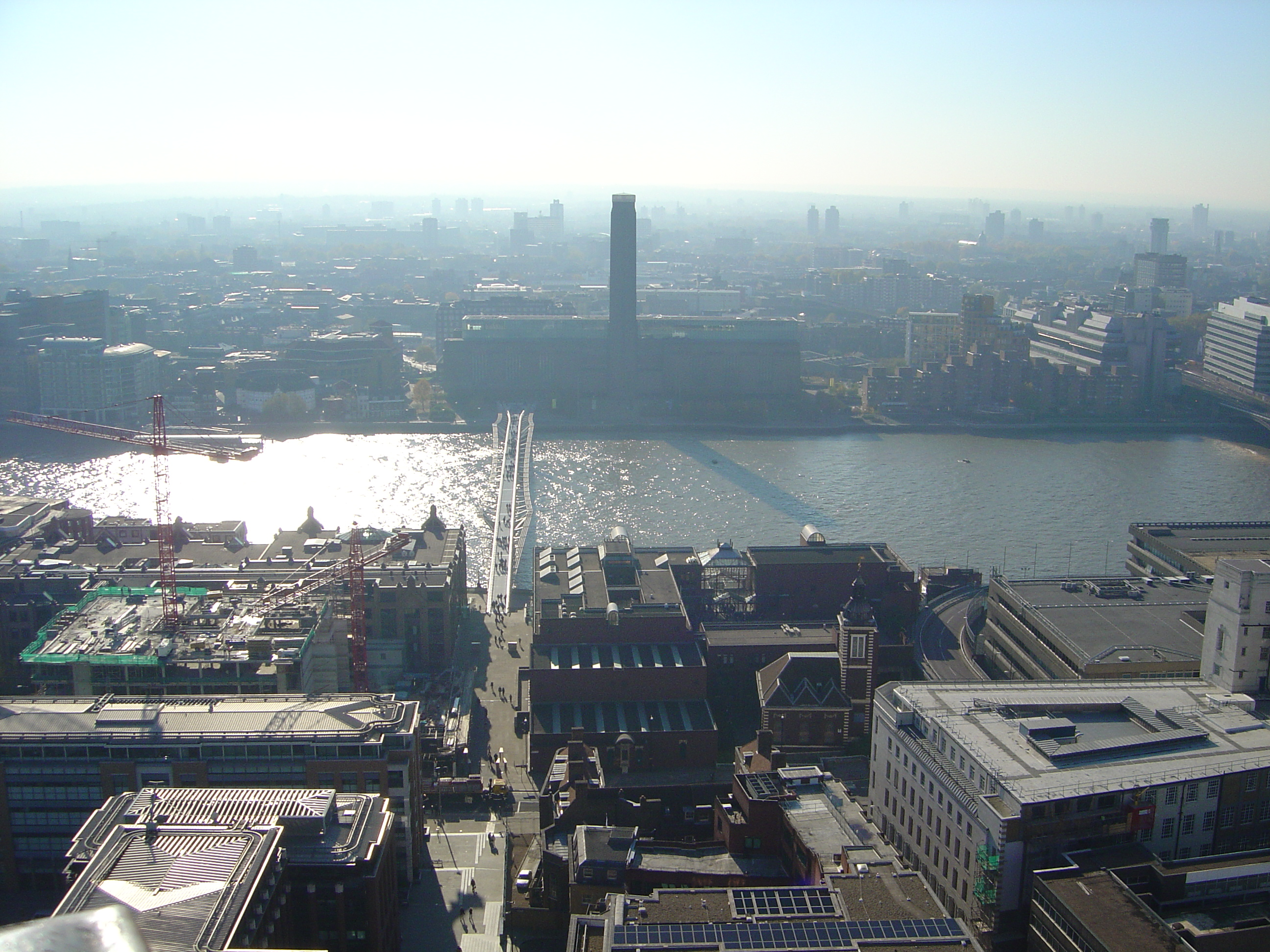 Tate Modern seen from St Paul's